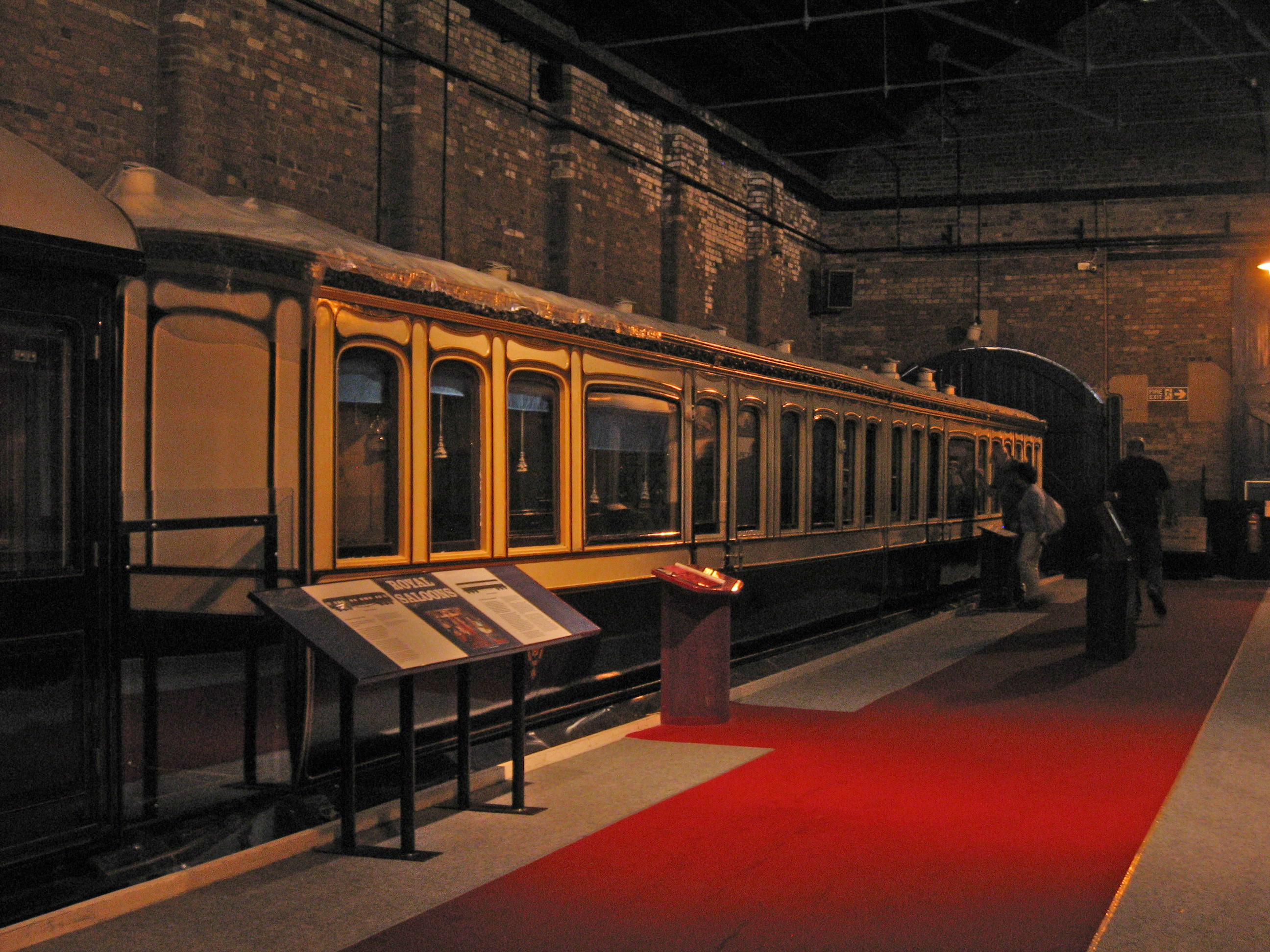 Salon of Queen Victoria in National Railway Museum, York